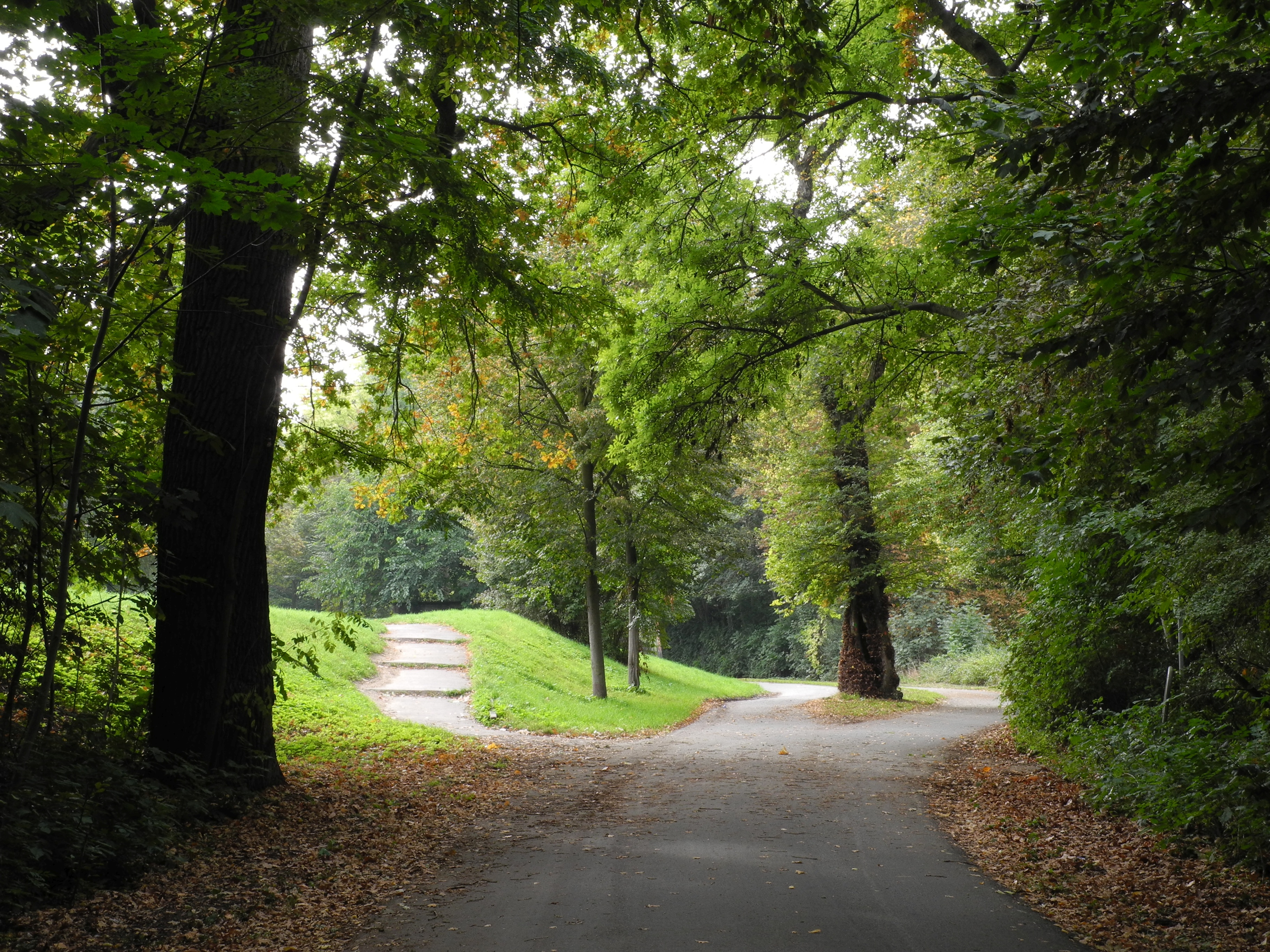 Forest park, Mannheim, Germany, Promenade Way, walking and bicycle path